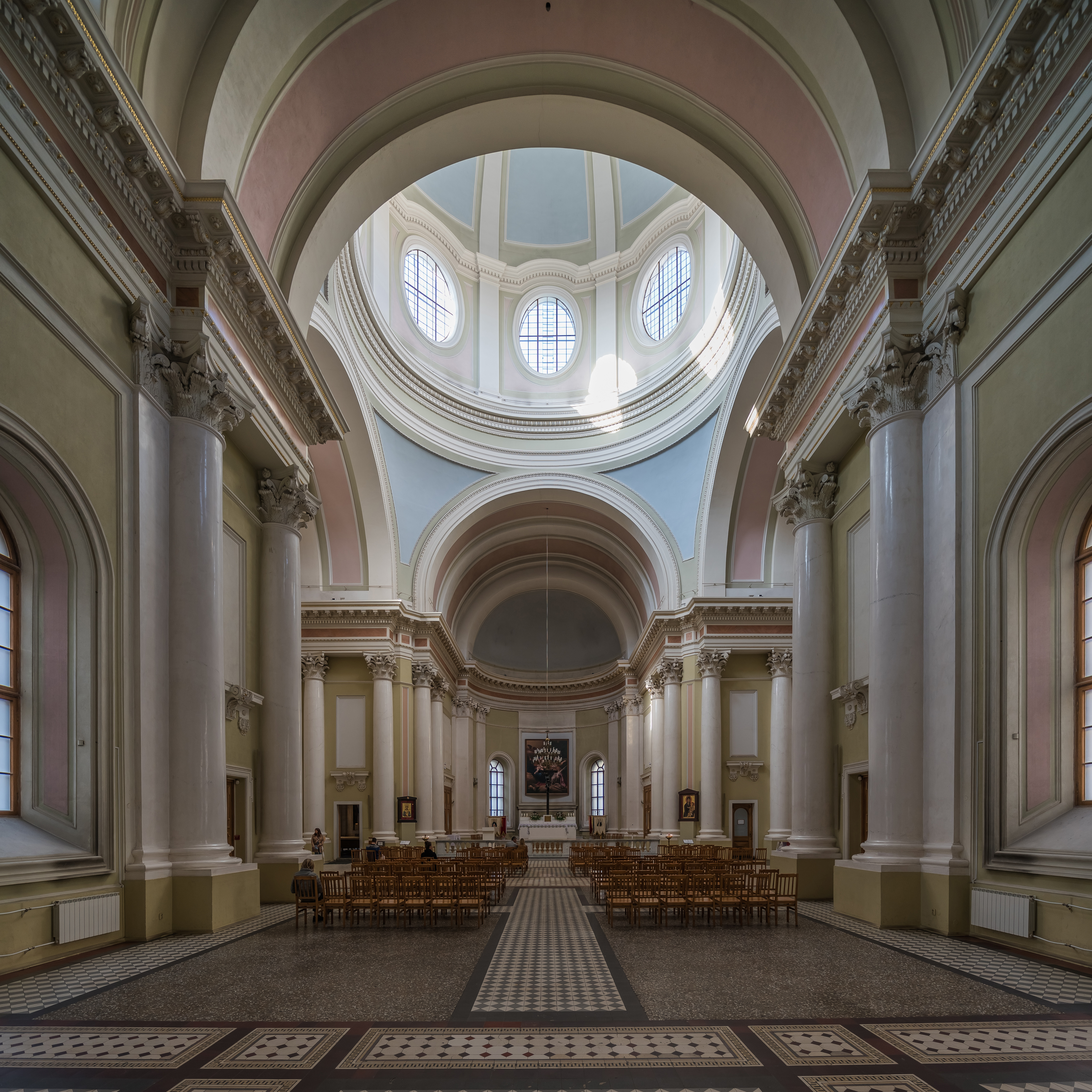 Interior of St. Catherine Roman Catholic Church at Nevsky Prospekt in Saint Petersburg, Russia